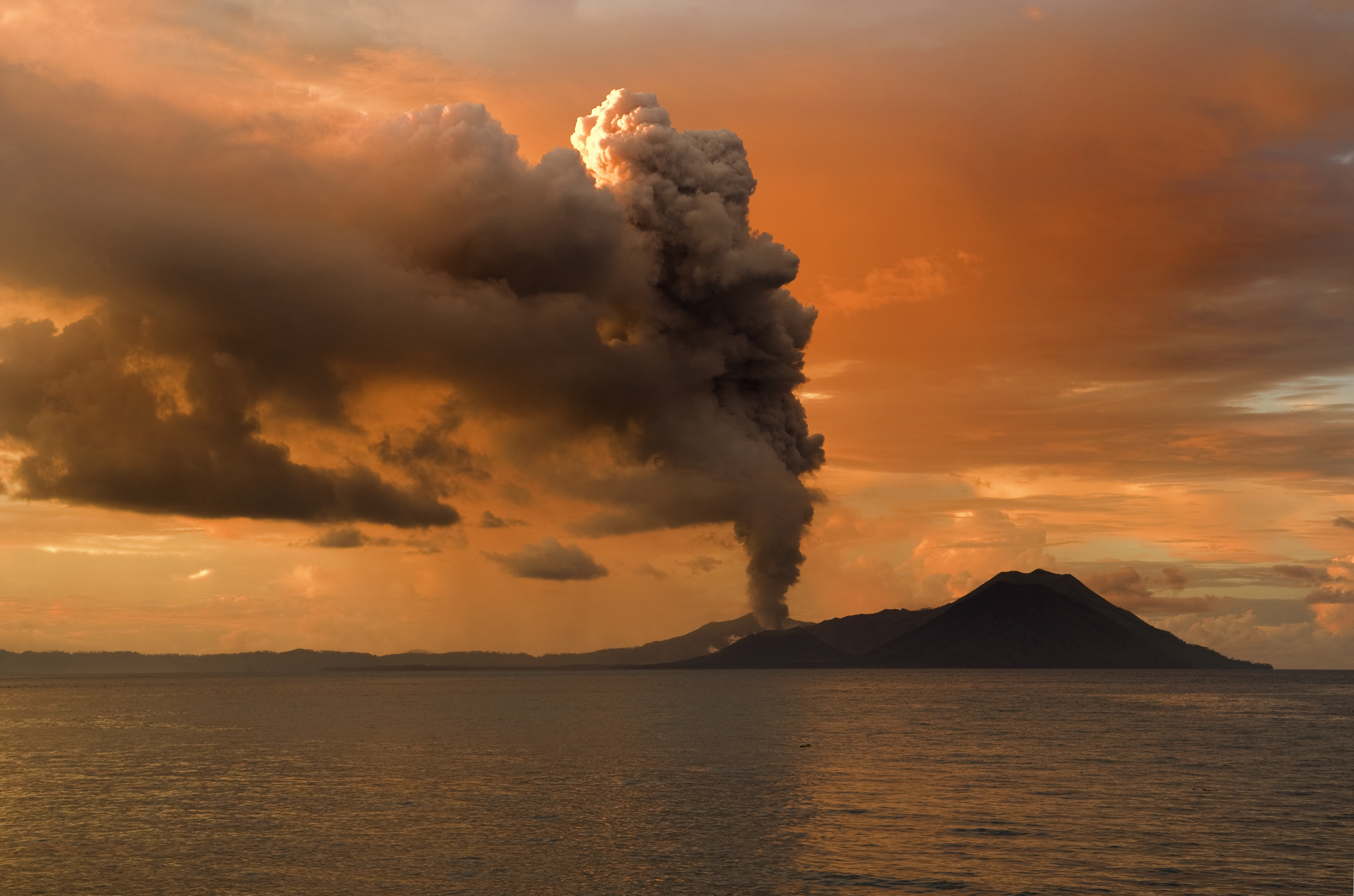 Tuvurvur volcano - part of Rabaul Caldera -- Papua New Guinea